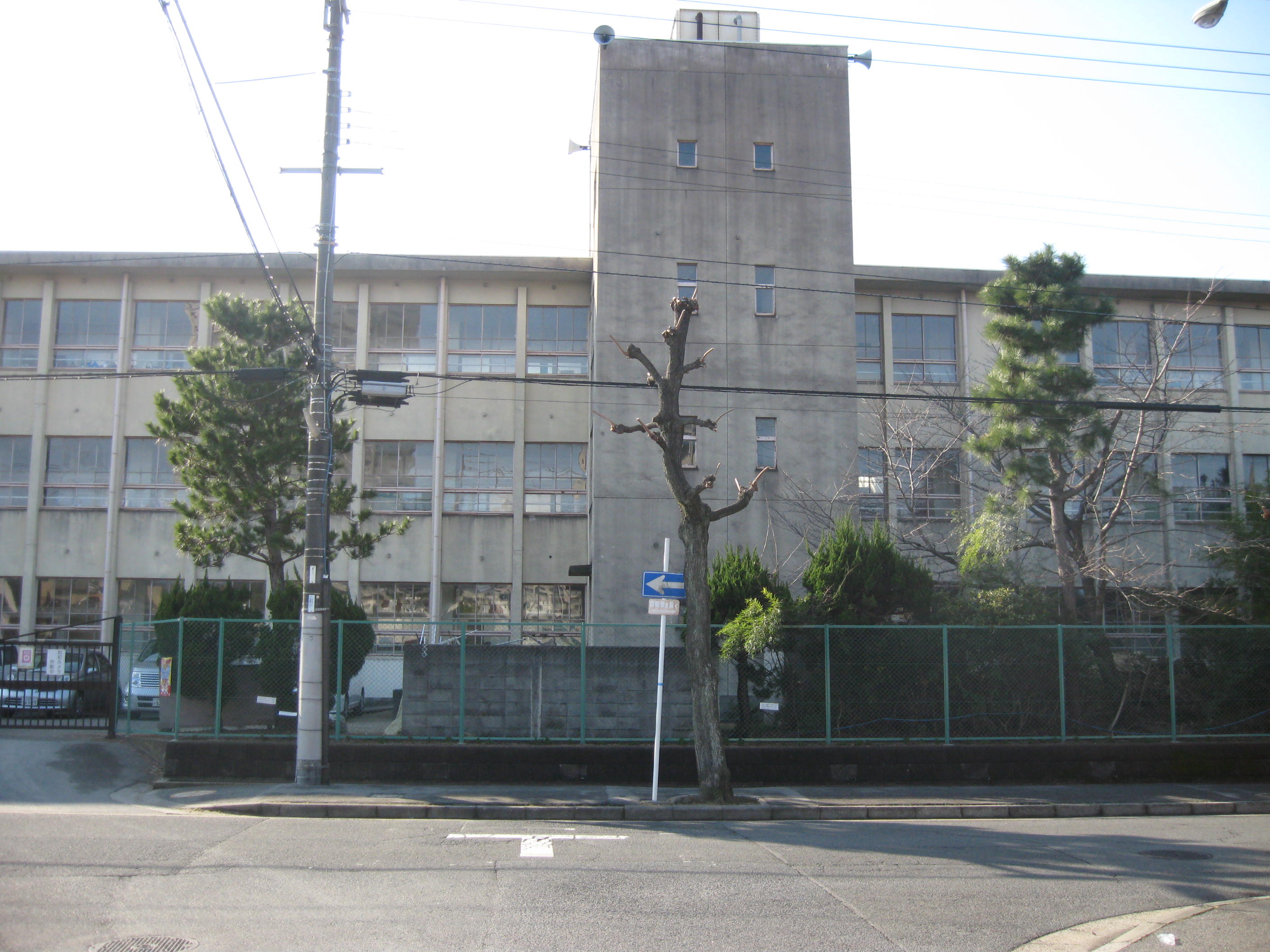 Hirakata-shiritsu_Kuzuha-nishi_elementary_school_in_Osaka,Japan